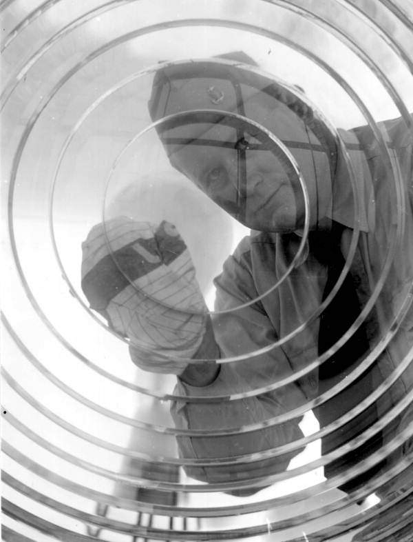 Persistent URL: Local call number: c018410 Title: Lighthouse keeper cleaning lens at the Pensacola Lighthouse Date: ca. 1960 Physical descrip: 1 photoprint - b&w - 5 x 4 in. Series Title: Department of Commerce Collection Repository: State Library and Archives of Florida 500 S. Bronough St., Tallahassee, FL, 32399-0250 USA, Contact: 850.245.6700